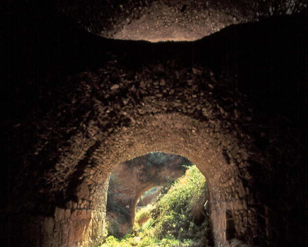 Inside view of the "tunnel" of the Roman Nysa Bridge, a tunnel-like substructure at Nysa on Meander, Caria, Asia Minor, to the west, downstream; between the arch in the front and in the back is the collapsed section